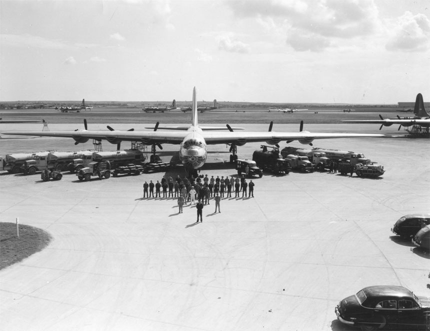 Personnel and equipment required to get and keep a B-36 Peacemaker airplane in the air. Reading from front to back, left to right, the personnel represent: the wing commander; the ground and squadron commanders; administrative personnel; a cook representing personnel that feed the men and prepare the food for the missions; the line chief whose responsibility it is to see that all the planes in his squadron are properly maintained; the crew chief and his crew of fifteen men, who are responsible for the maintenance on this particular aircraft; the men who fly the plane; the gasoline and oil trucks required to keep the bomber fully loaded with fuel, 21,116 gallons of gasoline and 1,200 gallons of oil; an example of a small bomb load that is usually taken on a practice mission; an ambulance that is on hand in the event of an accident; hospital personnel; a fire truck that is on hand when the plane starts its engines or making an emergency landing; and a load of oxygen bottles. (The B-36 is pressurized, however, in the event of an emergency when the plane is at a high altitude, oxygen may be used.) Others not shown in this photograph that help, are the control tower operator that clears the plane for its taxiing, takeoffs and landings; the radar and radio maintenance personnel; and the air police. (35709 A.C.)